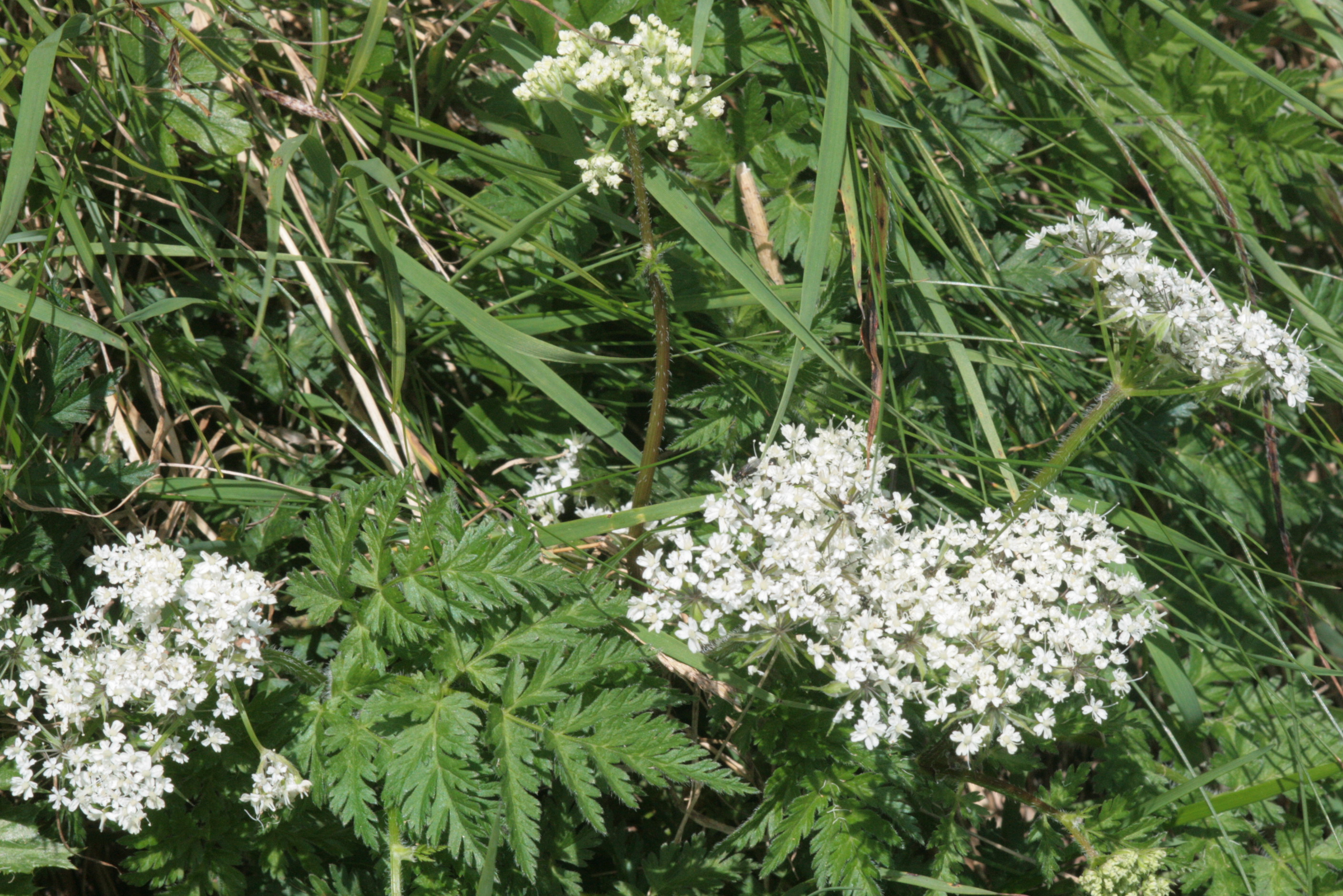 Chaerophyllum villarsii